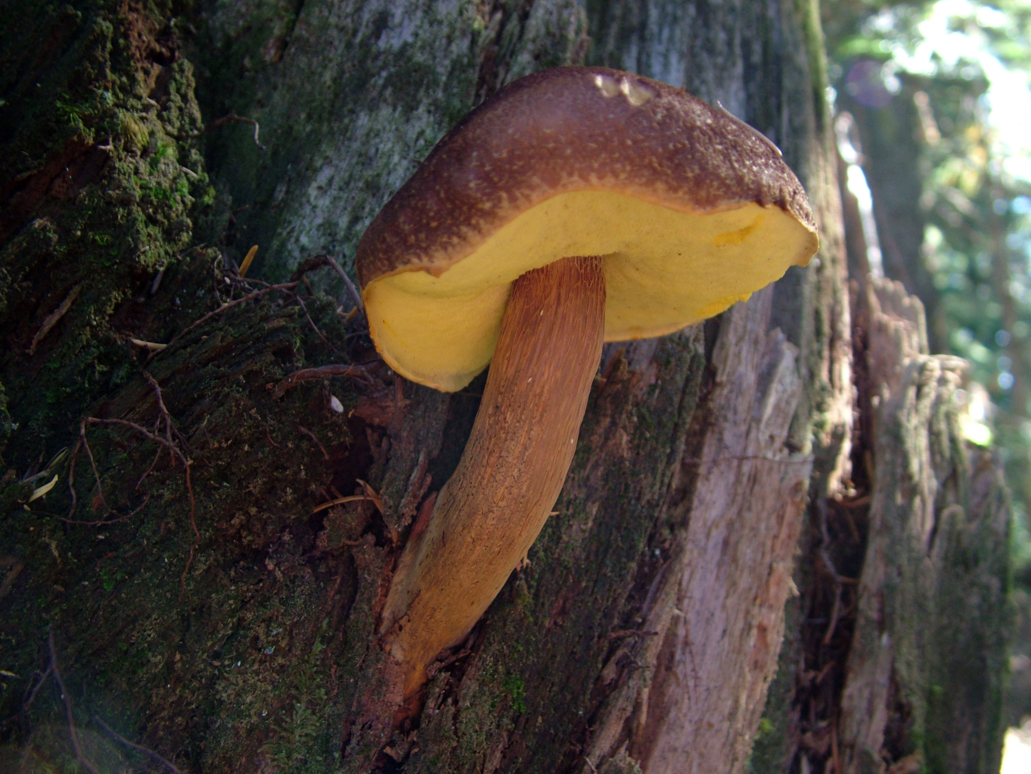 The admirable bolete (Boletus mirabilis) mushroom growing out of a decaying hemlock stump in the Mount Baker-Snoqualmie National Forest, Washington, USA. Forest type was mountain hemlock (Tsuga mertensiana) and pacific silver fir (Abies amabilis).